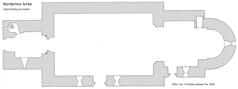 The ground floor of Norderhov kirke (Norderhov church, Ringerike, Buskerud, Norway), the northern facade.